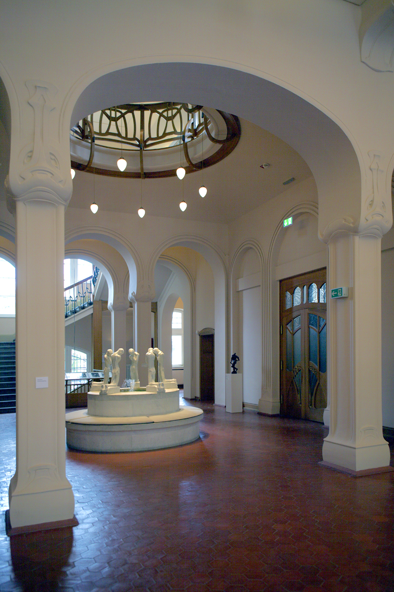 Inside of Osthaus-Museum at Hagen, Germany